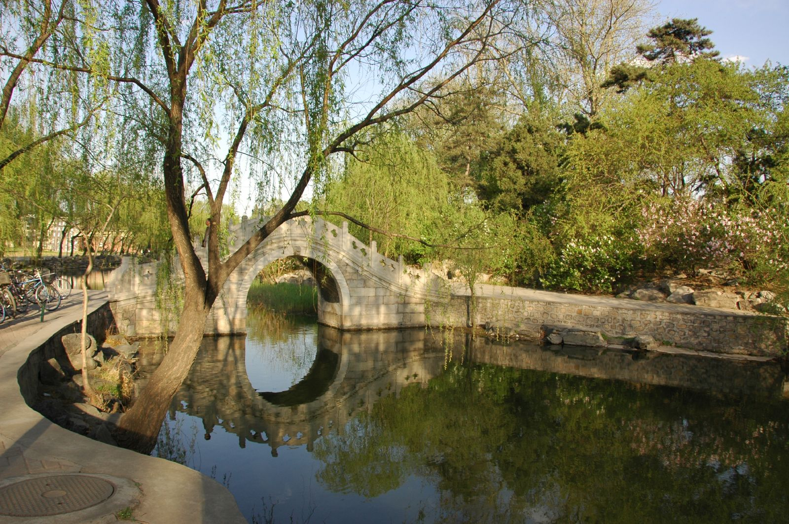 The Tsinghua University campus in Beijing, China